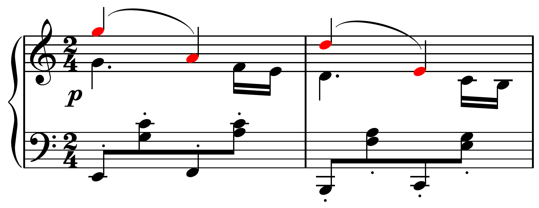 "Gade," in red, from Rebus, Drei kleine Clavierstücke, Op. 2a; no. 3, Alla marcia, mm.20-21.